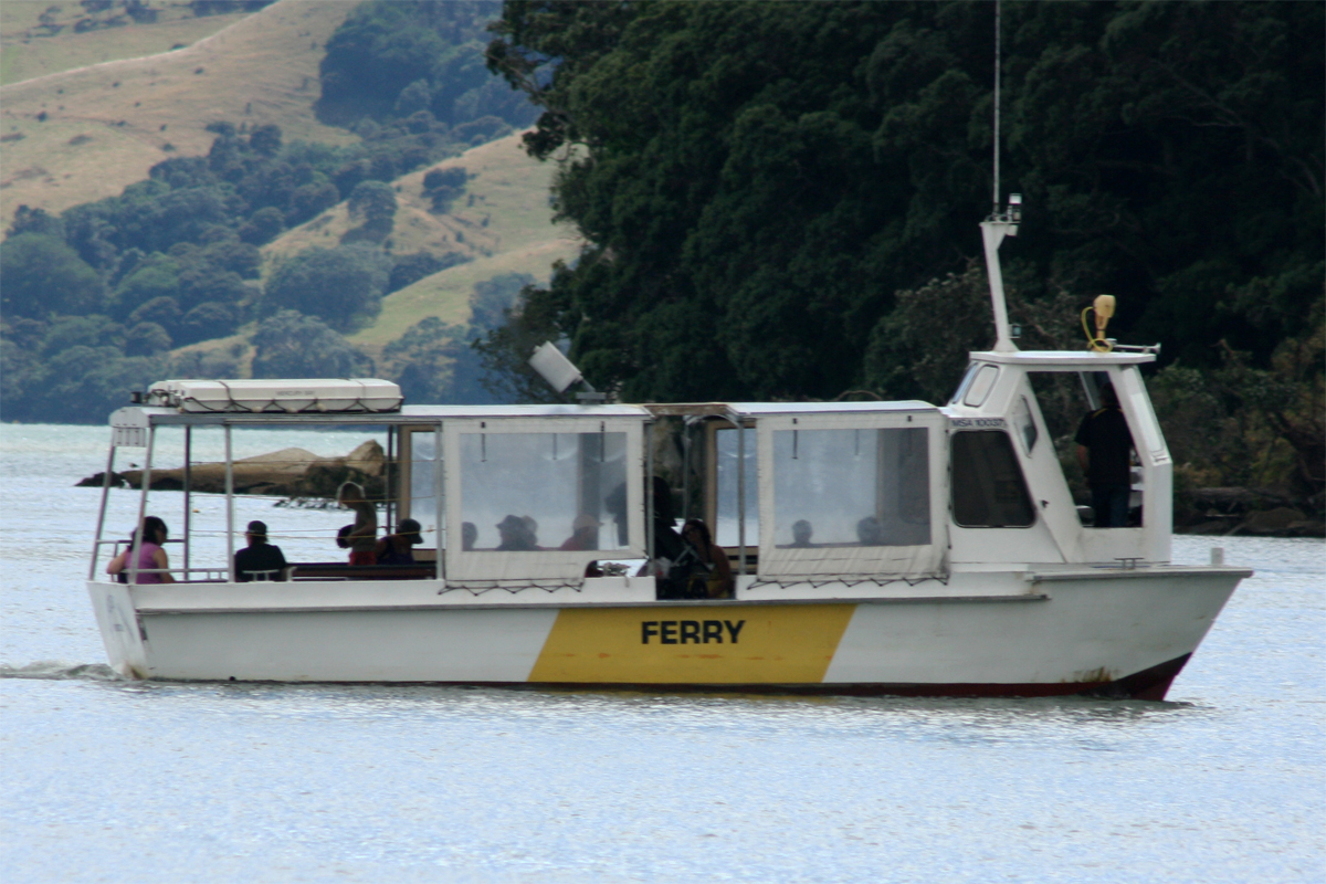 The Ferry which crosses the harbor entrance at Whitianga